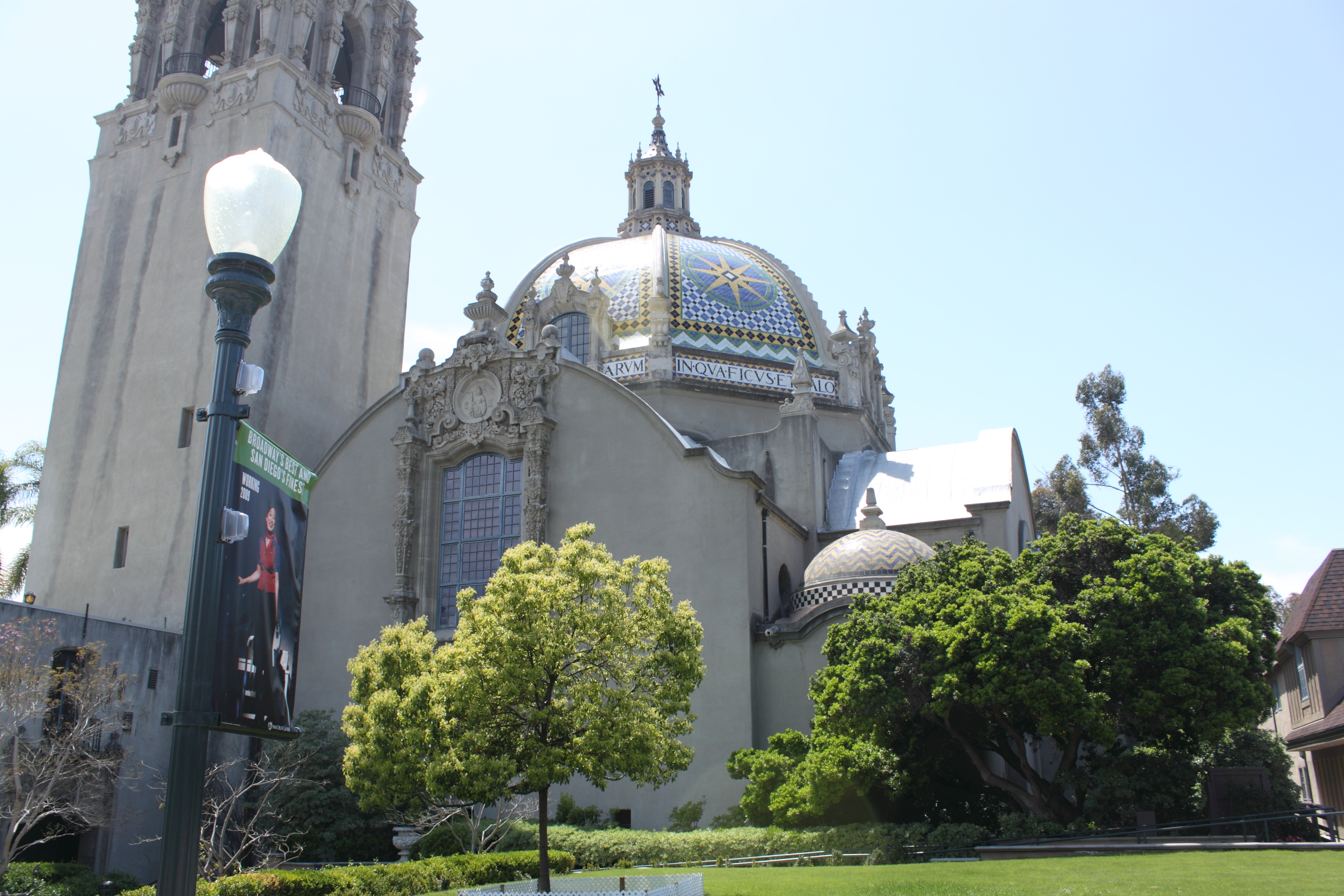 The San Diego Museum of Man building.